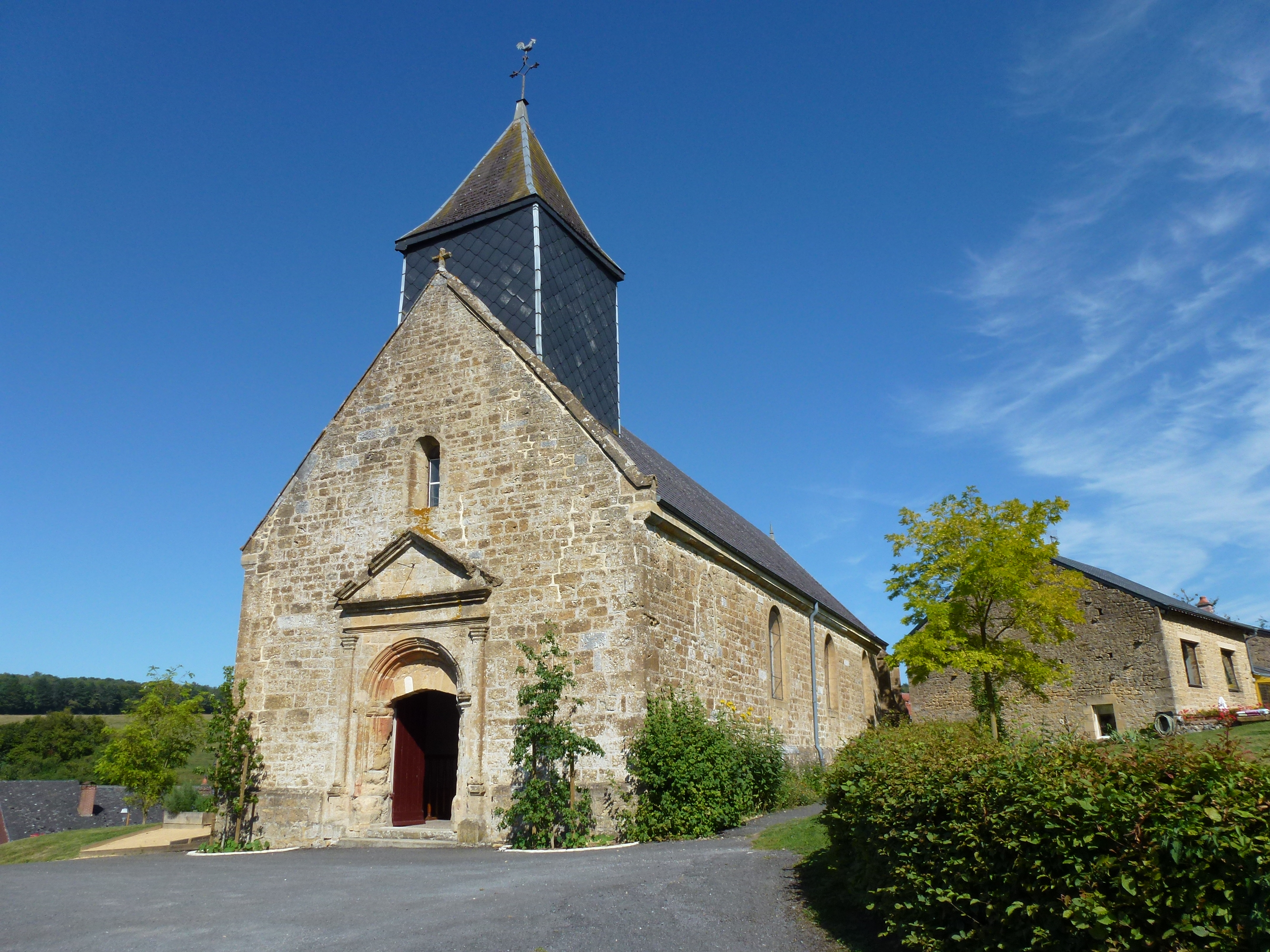 Vaux-Villaine (Ardennes) Église Saint-Remi, extérieur